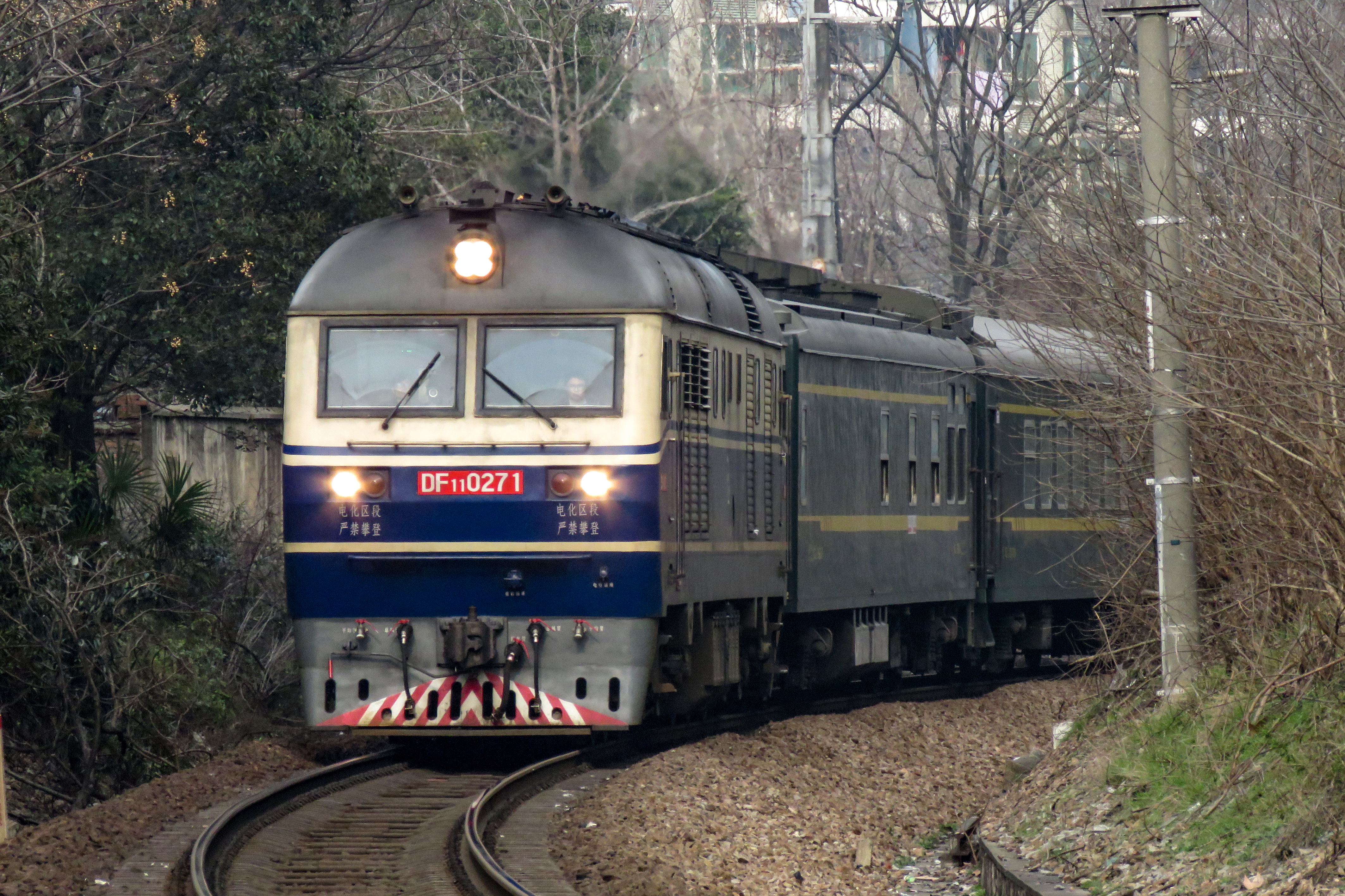 K1157 from Shanghai to Chengdu, hauled by this Hefei-based DF11.